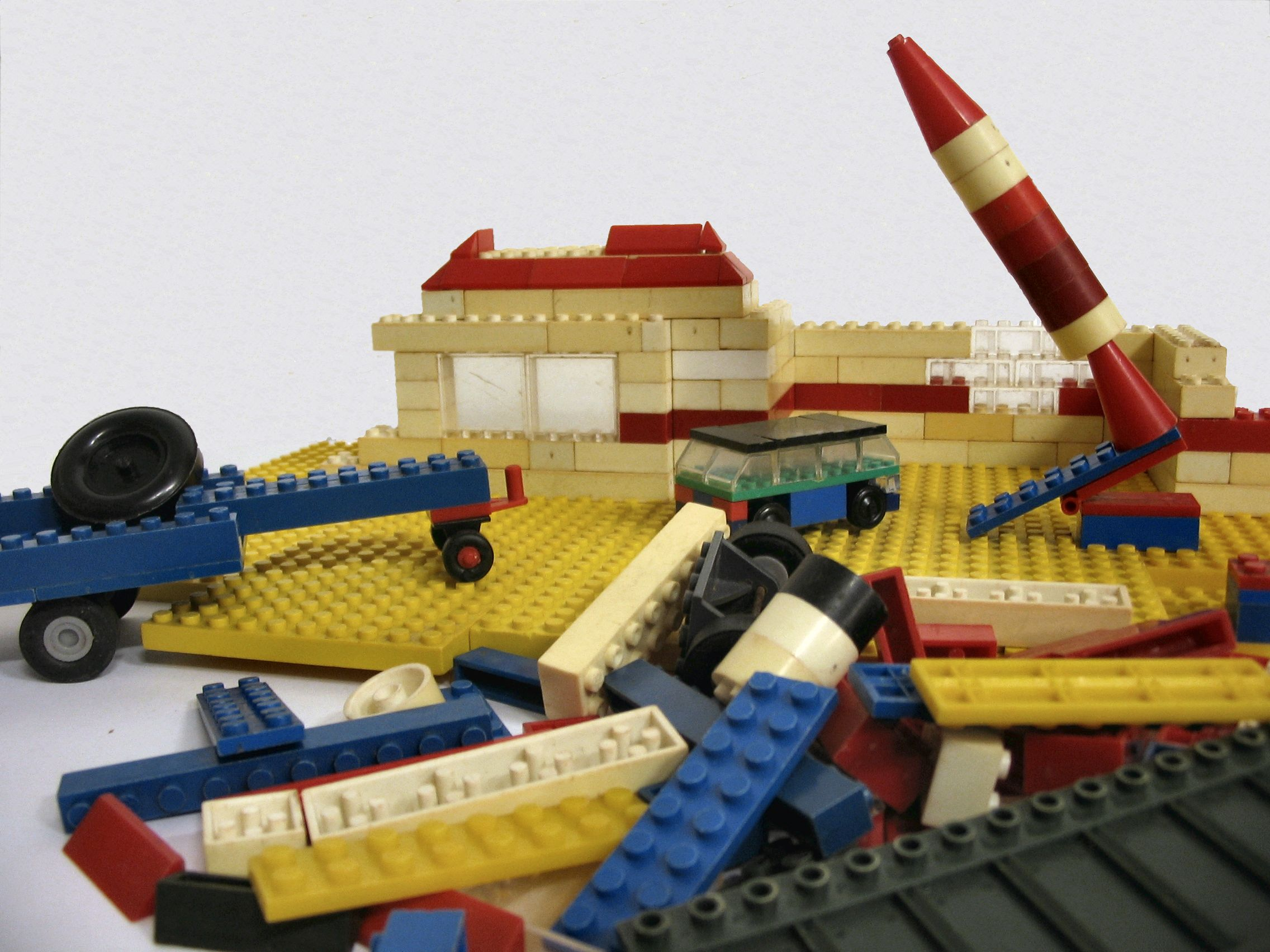 PEBE bricks, inchoated building with rocket and trailer to demonstrate the functional stones. The car in the middle shows the differences in size to the PEBE mini series.